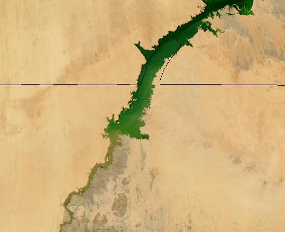 Satellite picture by NASA of the Nubia Lake, who is the sudanese part of the Nasser Lake, at 26 january 2003.